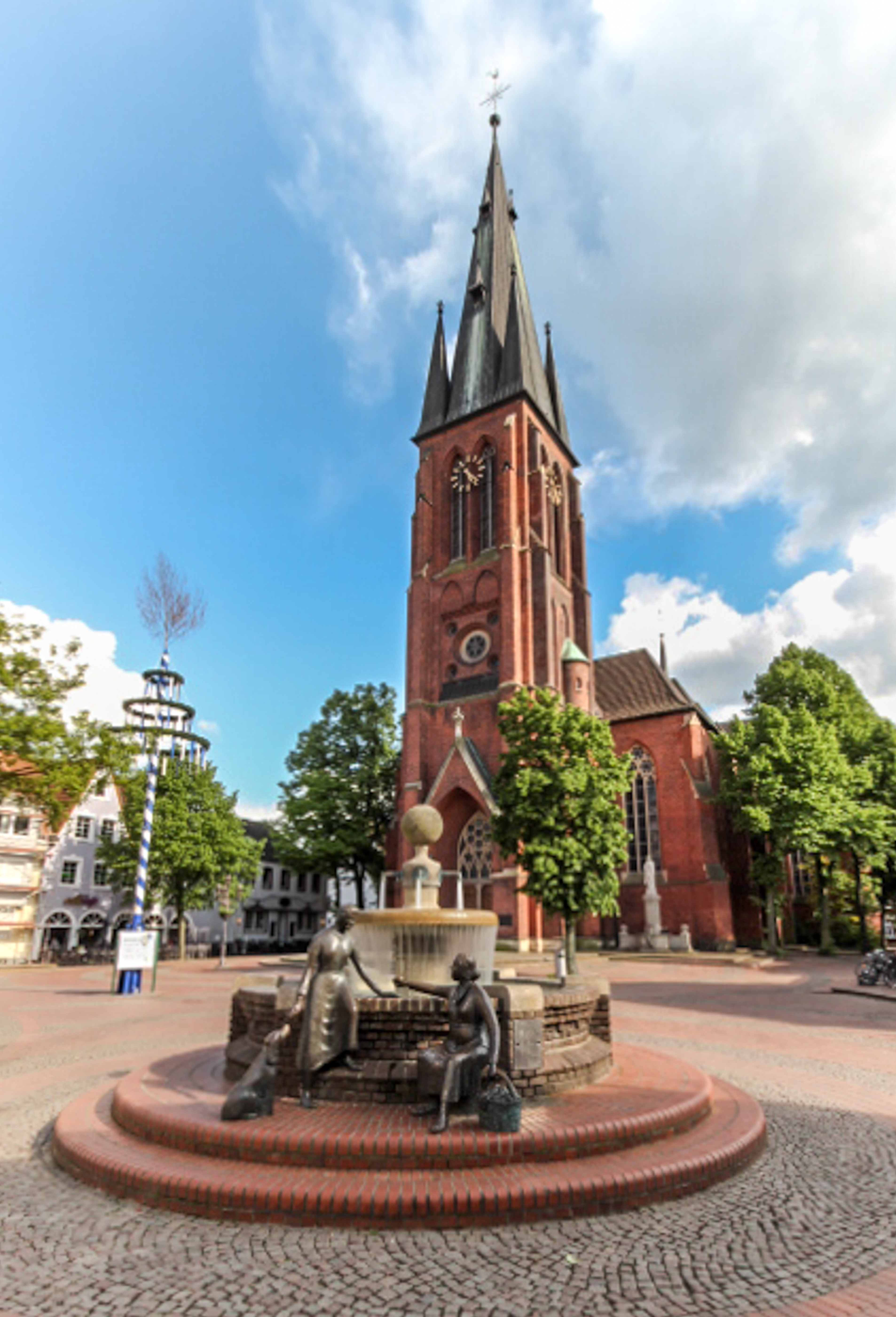 Church of Saint Sixtus and market fountain, Haltern am See, North Rhine-Westphalia, Germany This image shows a heritage building in Germany, located in the North Rhine-Westphalian city Haltern am See (no. 10). Sculpture TitleBrunnenArtistUnknown artistDate1988 Sculpture TitleFigurengruppeArtistHelmut SchlüterDate1988